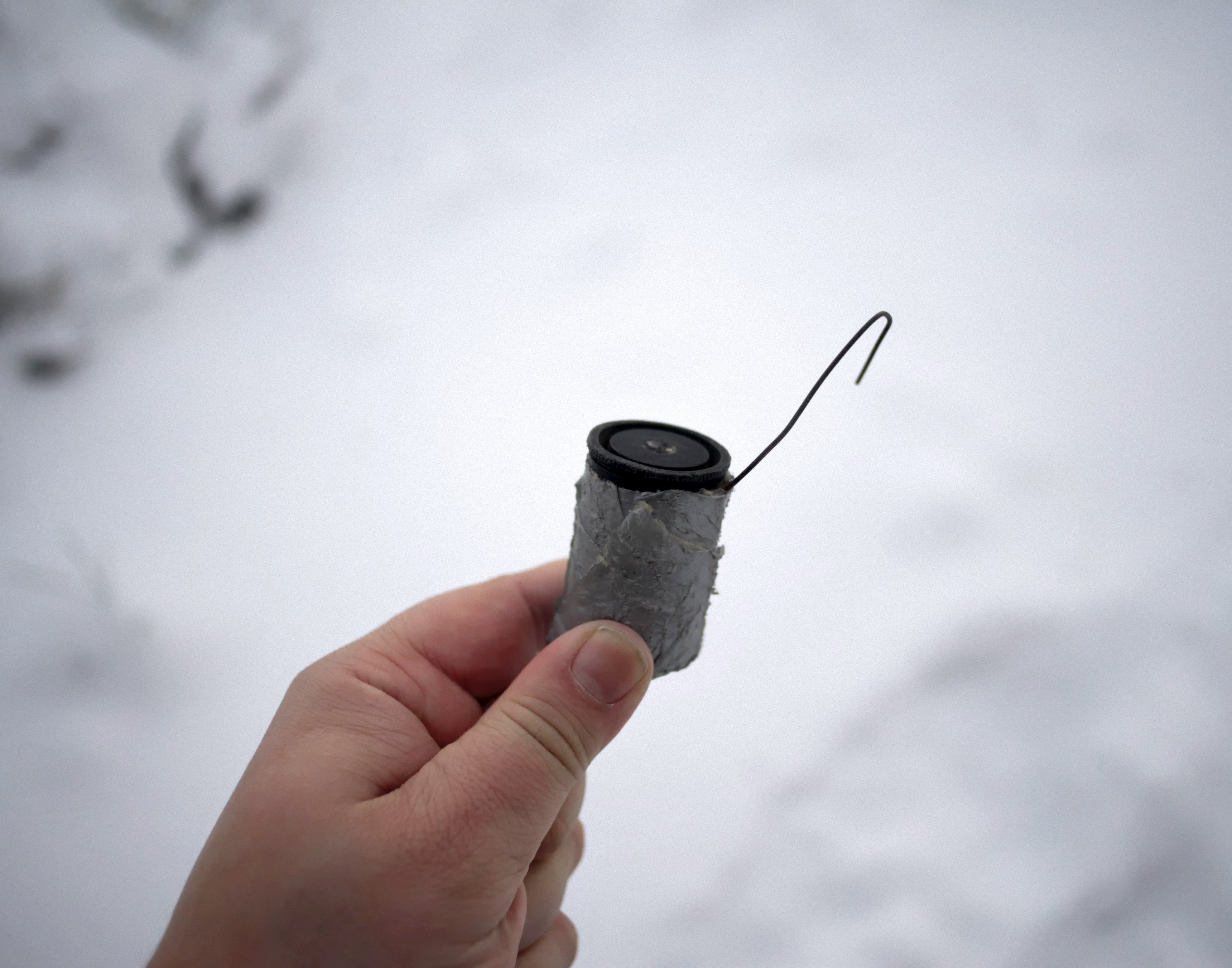 Example of a geo cache